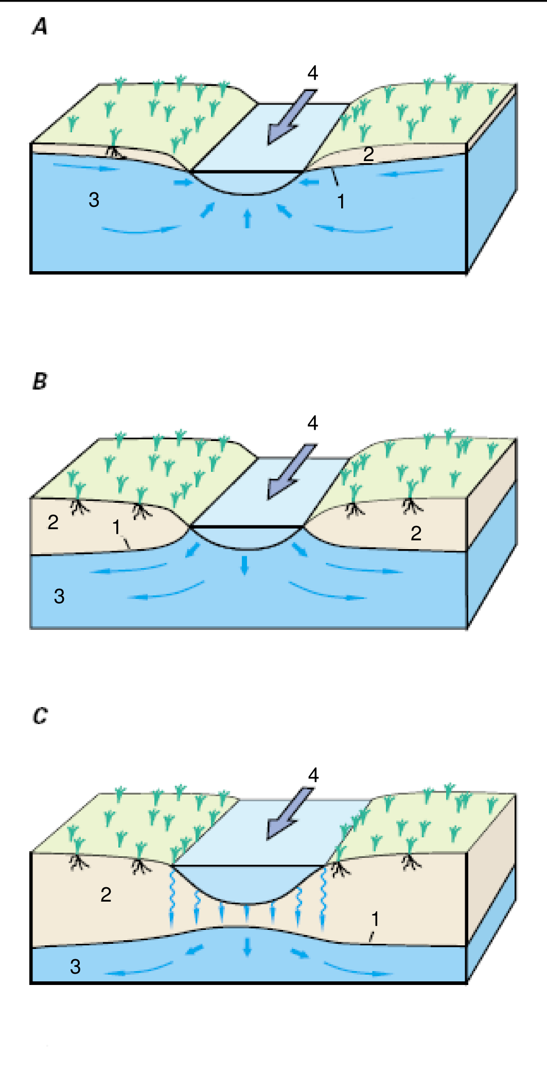 Relation between streams and underground water. A=Gaining stream, B= Losing stream, C= Losing stream that is disconectes from the water table. 1= Water table; 2= Unsaturated zone; 3= Saturated zone , 4=Flow direction